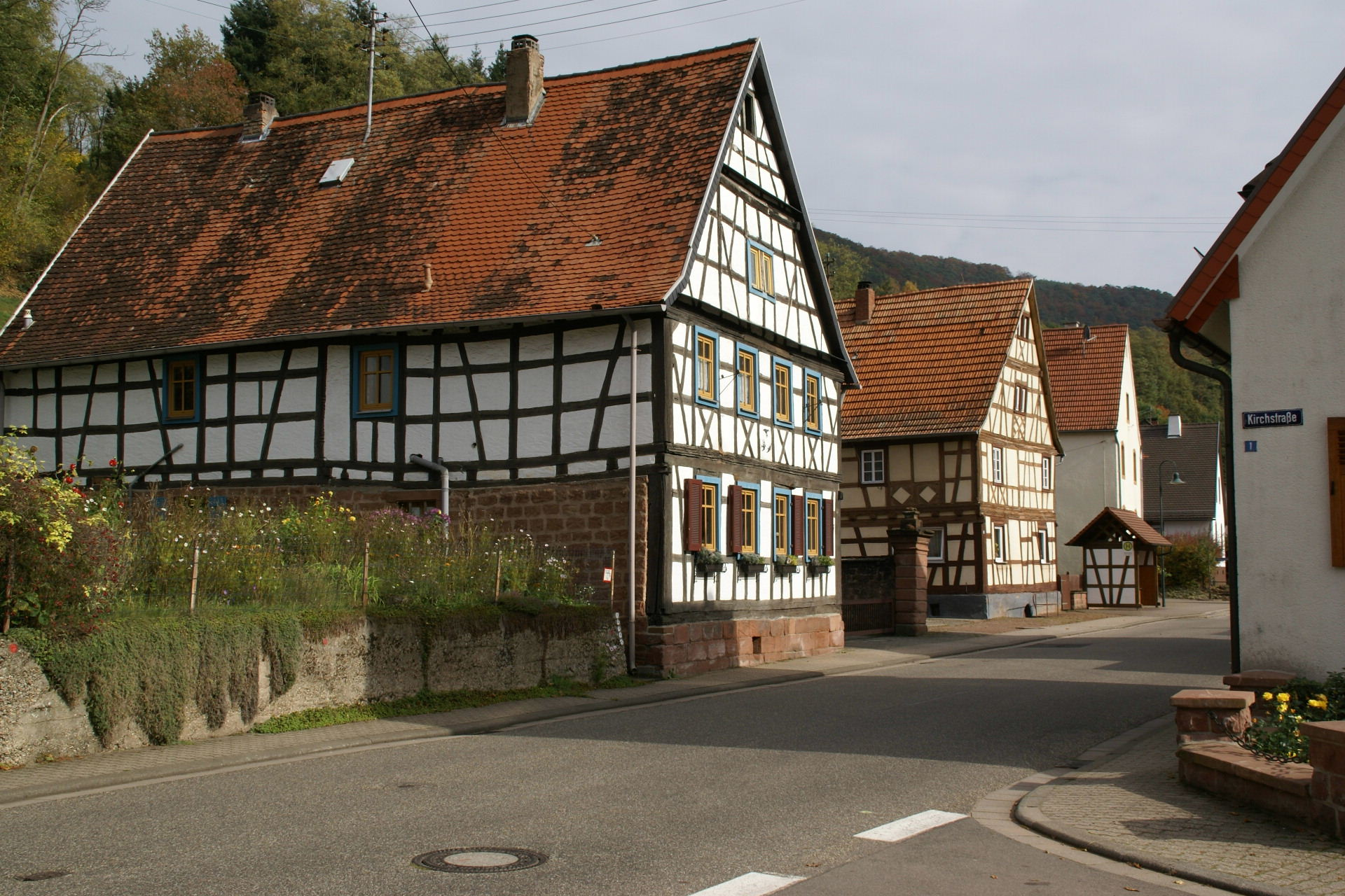 Bobenthal (Pfalz) Germany